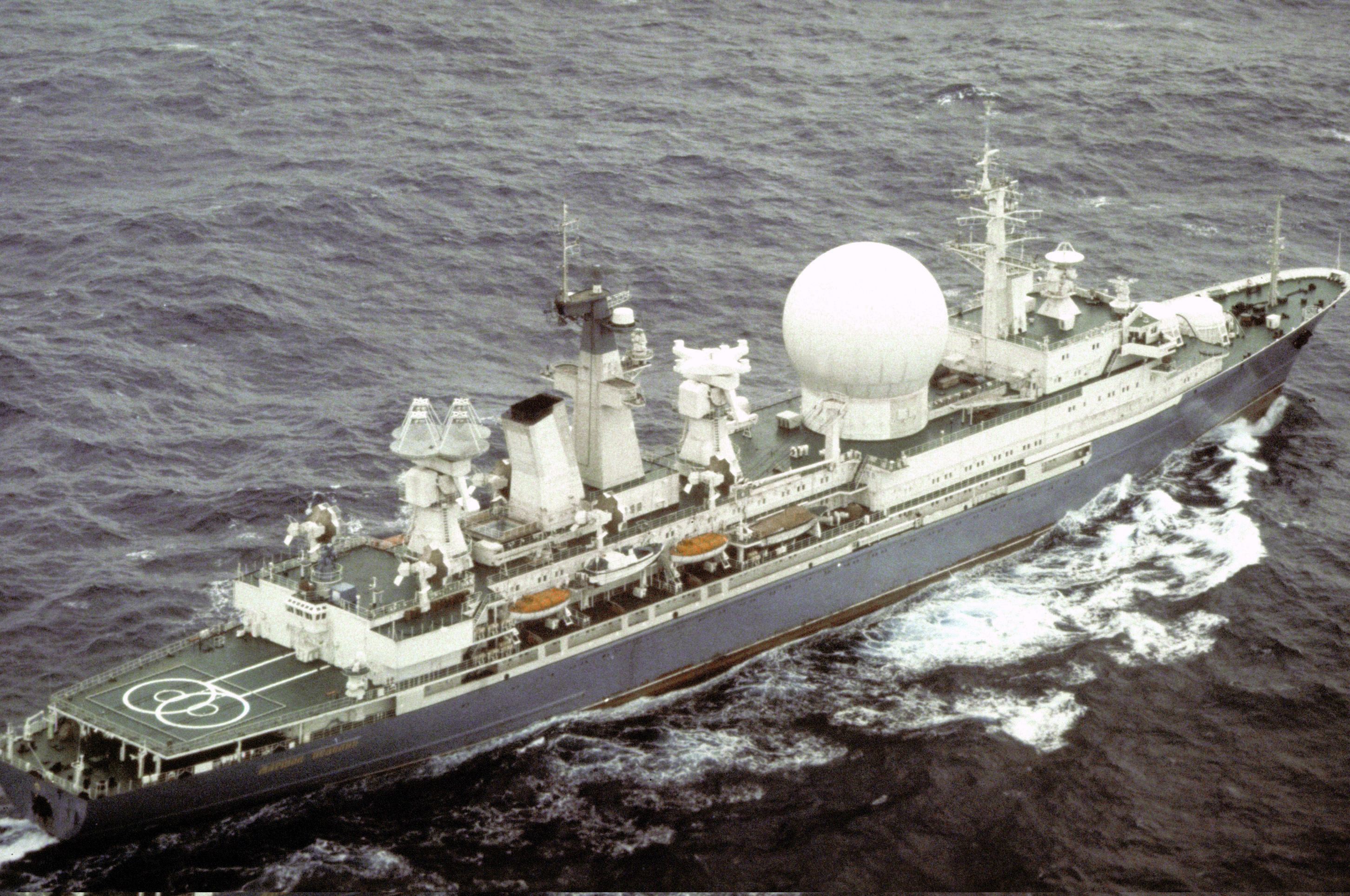 A starboard quarter view of the Soviet Marshal Nedelin class naval missile range ship Marshal Nedelin underway. Exact Date Shot Unknown.